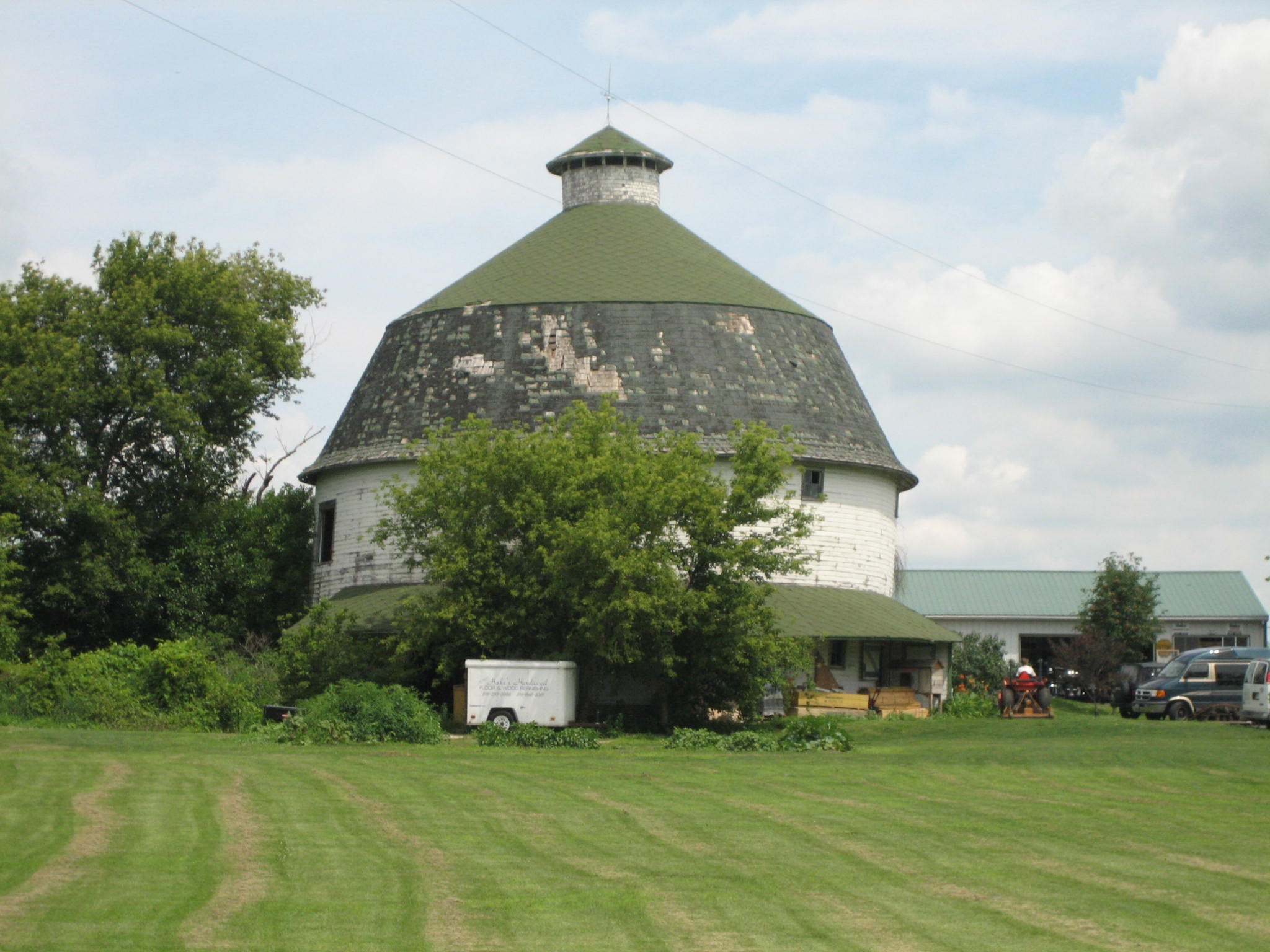 James Bruce Round Barn, near Freeport, Illinois in Stephenson County USA. U.S. National Register of Historic Places.